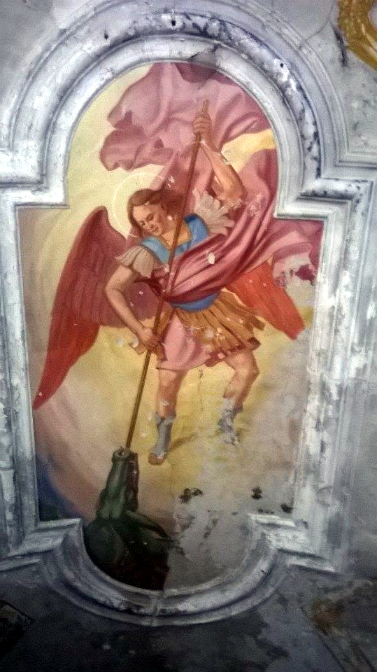 You can see this picture in the castle "Kehlburg". It shows the Holy George in the moment, in which he is killing the dragon.